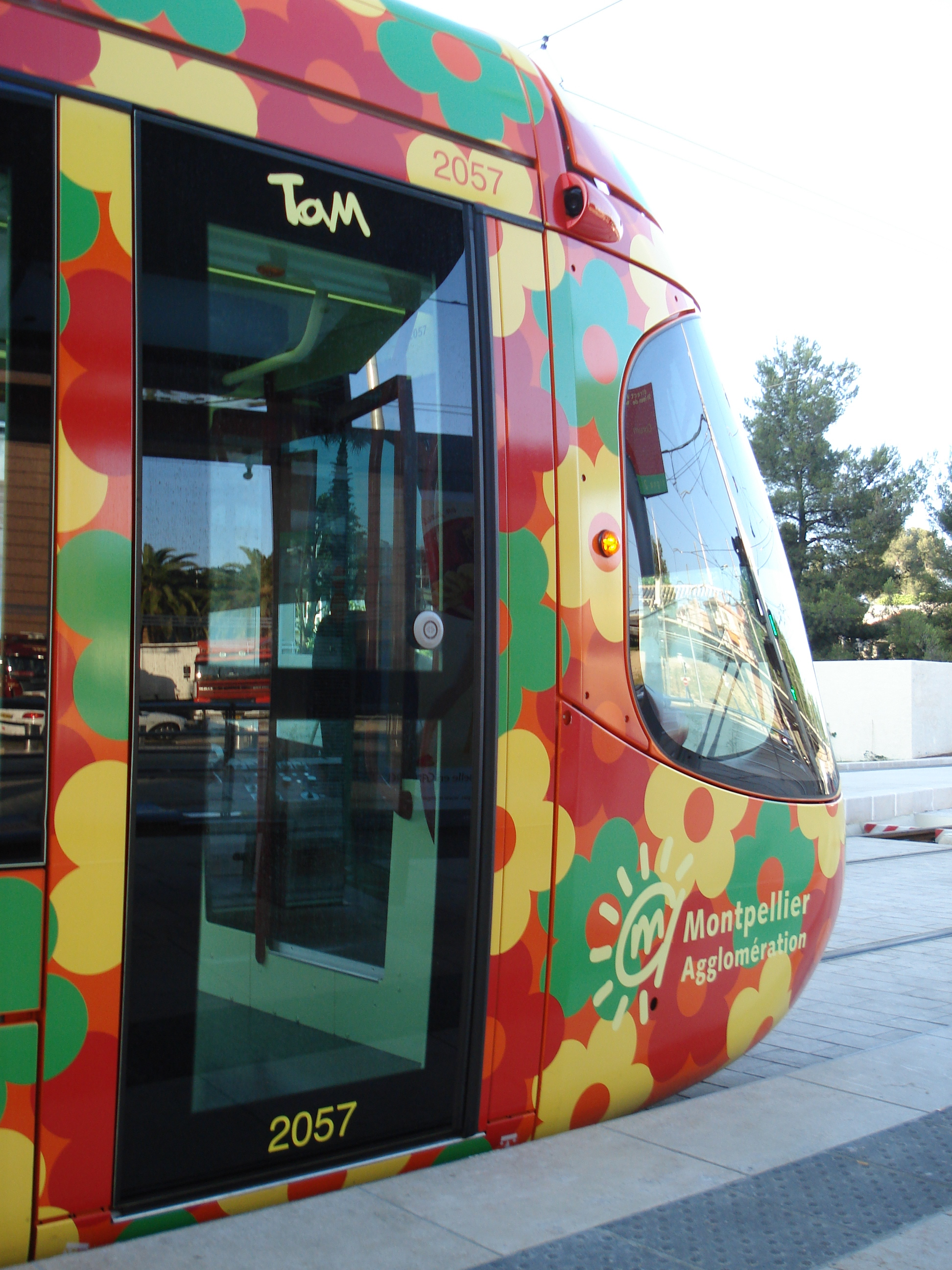 Tramway ligne 2, Montpellier